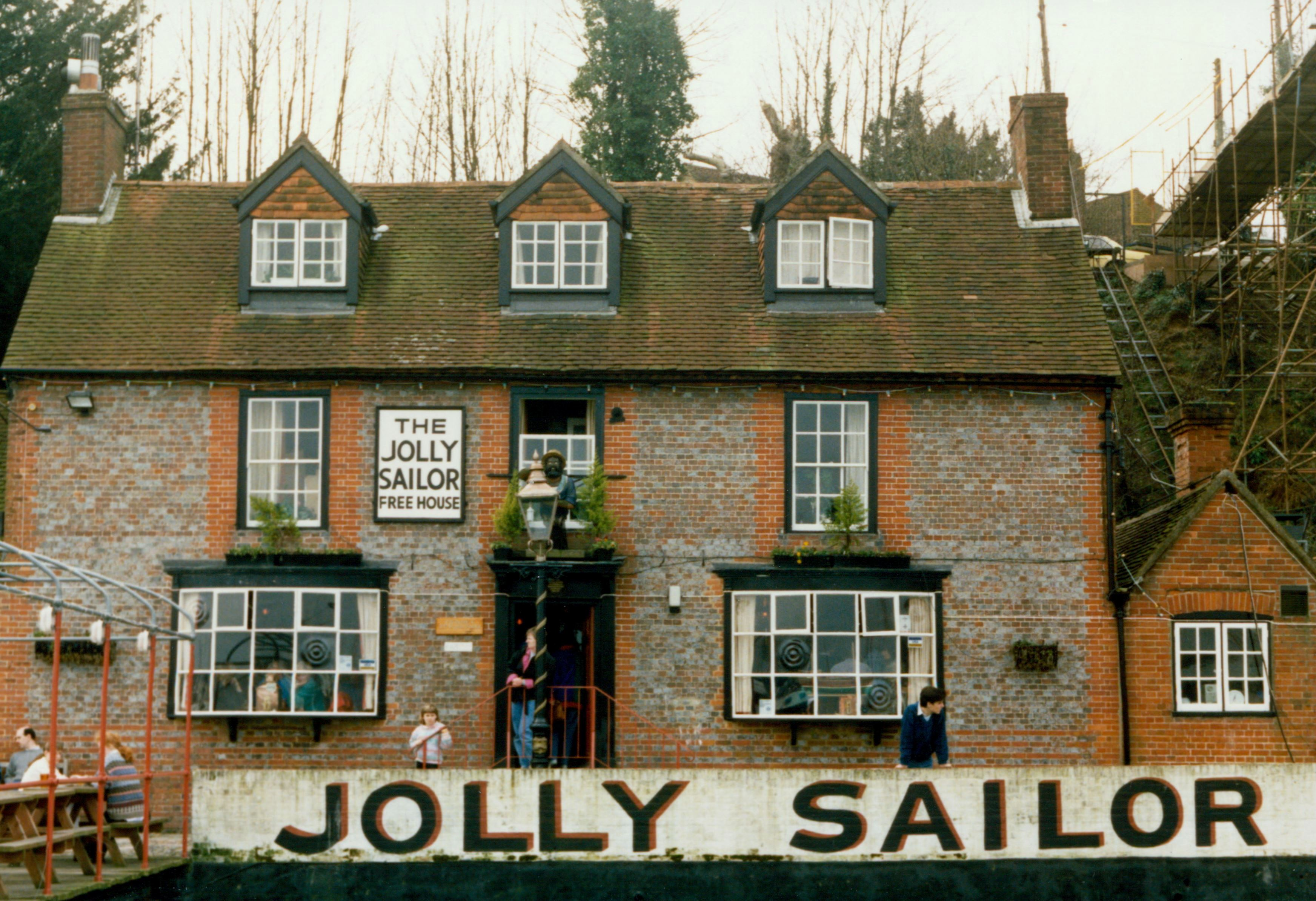 Jolly Sailor Public House Wikidata has entry Q26405824 with data related to this item.